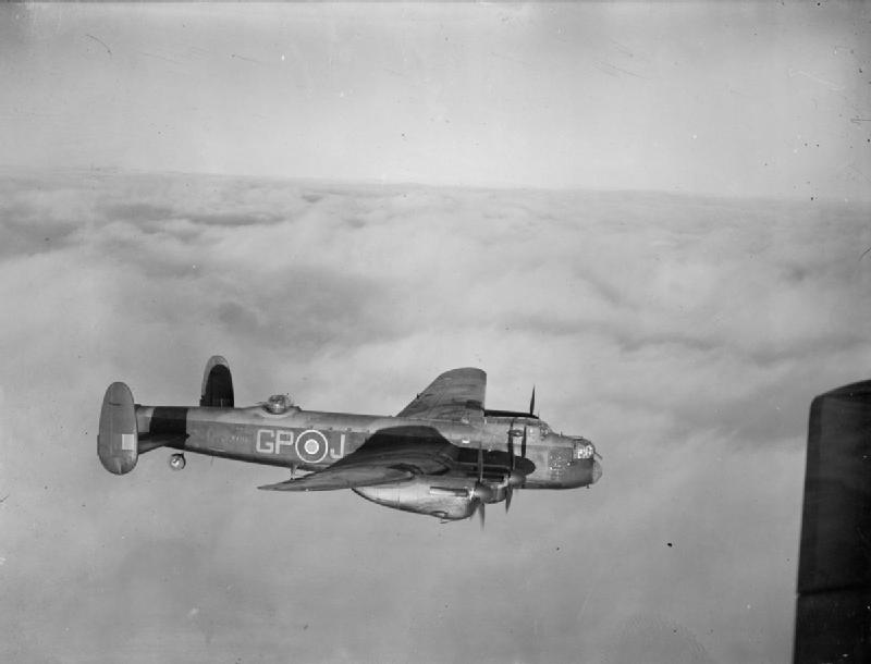 Aircraft of the Royal Air Force 1939-1945- Avro 683 Lancaster. Lancaster B Mark I, W4113 ‘GP-J’, of No. 1661 Heavy Conversion Unit based at Winthorpe, Nottinghamshire, in flight. W4113 was a veteran aircraft having flown on a number of raids with Nos. 49 and 156 Squadrons RAF in 1942 and 1943